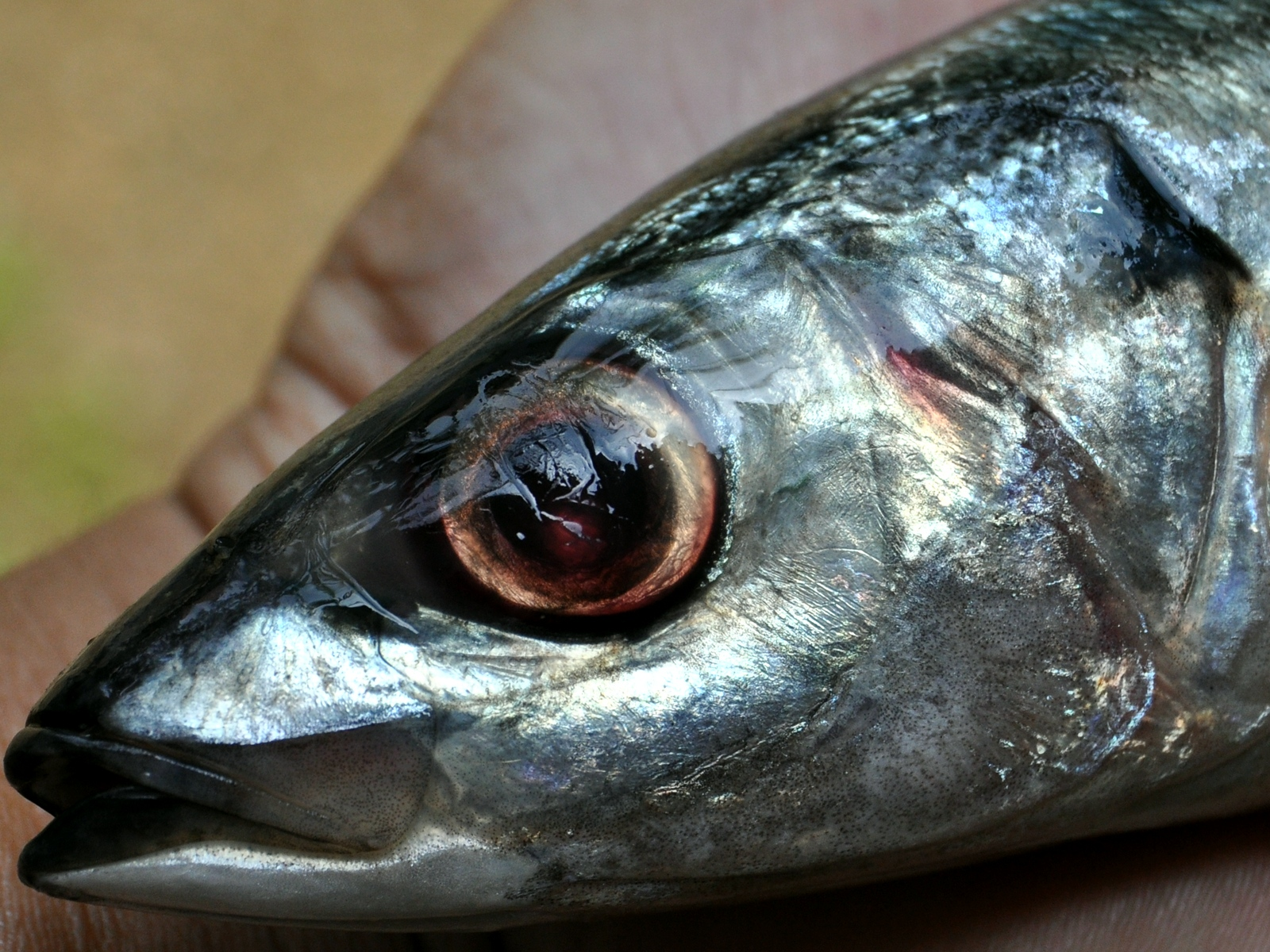 Decapterus macarellus from traditional market in Bogor, West Java, Indonesia. Head region; note the adipose eyelid.